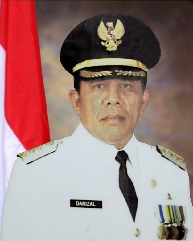 Darizal Basir, Regent of Pesisir Selatan from 1995-2005.